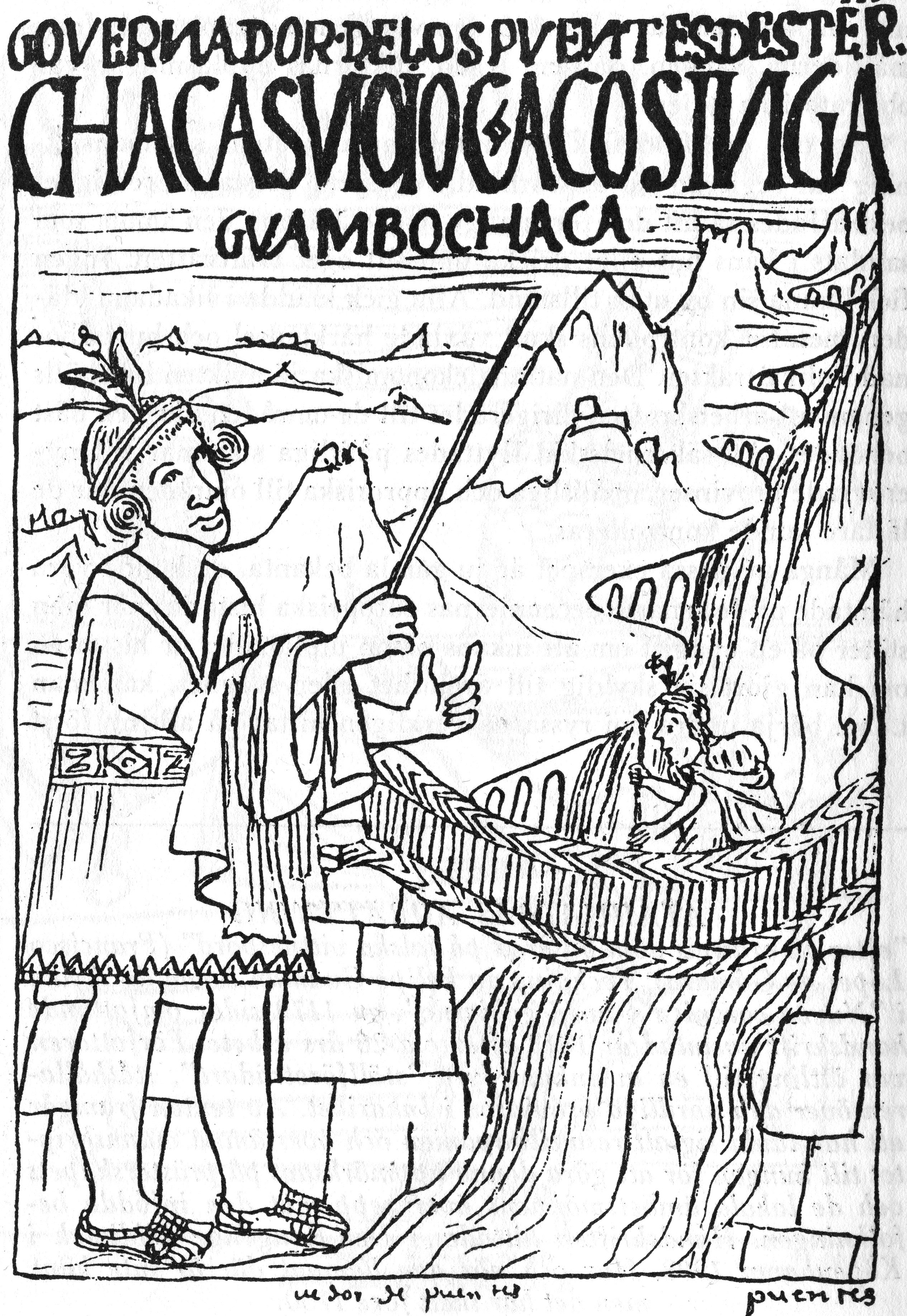 A bridge guardian in the Inca empire. Drawing by Felipe Guamán Poma de Ayala in Nueva corónica y buen gobierno from 1613.